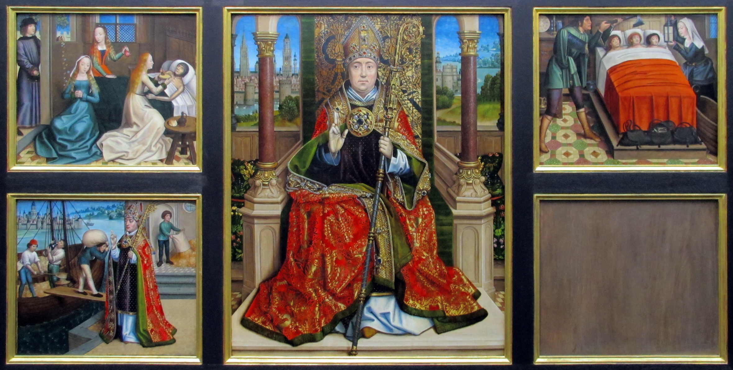 Saint Nicholas, probably by the Master of the Legend of Saint Lucy (c. 1500), with in the background the city of Bruges. The side panels portray some miracles that were ascribed to him: providing a dowry to save the three daughters of a poor man from slavery/prostitution, providing grain to save the city of Myra from starvation, and the axe murder on three students by an innkeeper and his wife. In the missing panel, not on display in the Groeningemuseum, it is shown how Nicholas reassembles the brined body parts of the murdered students and brings them back to life.